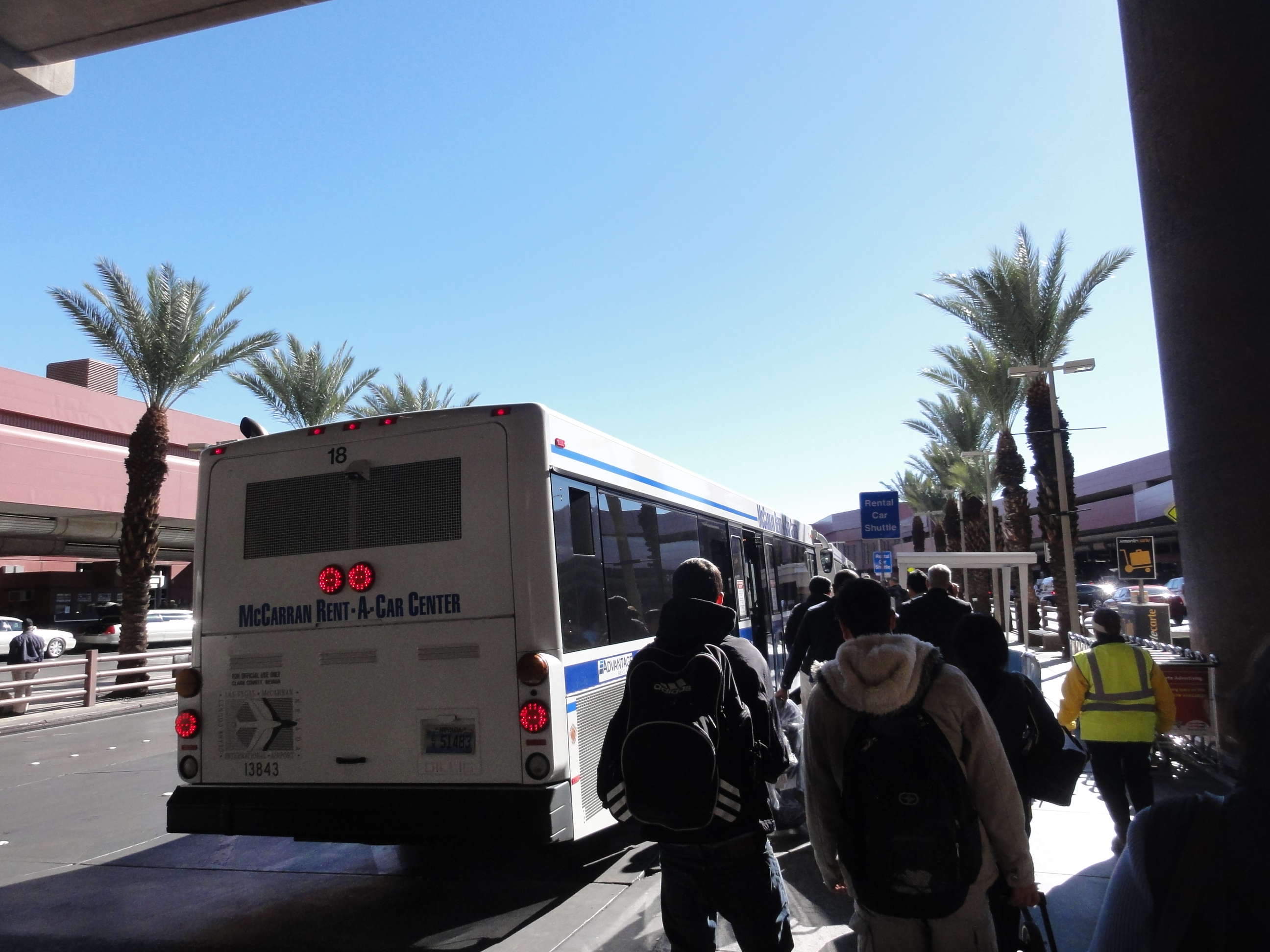 Courtesy shuttle about to depart Terminal 1 for the rental car center at McCarran Airport, Las Vegas.